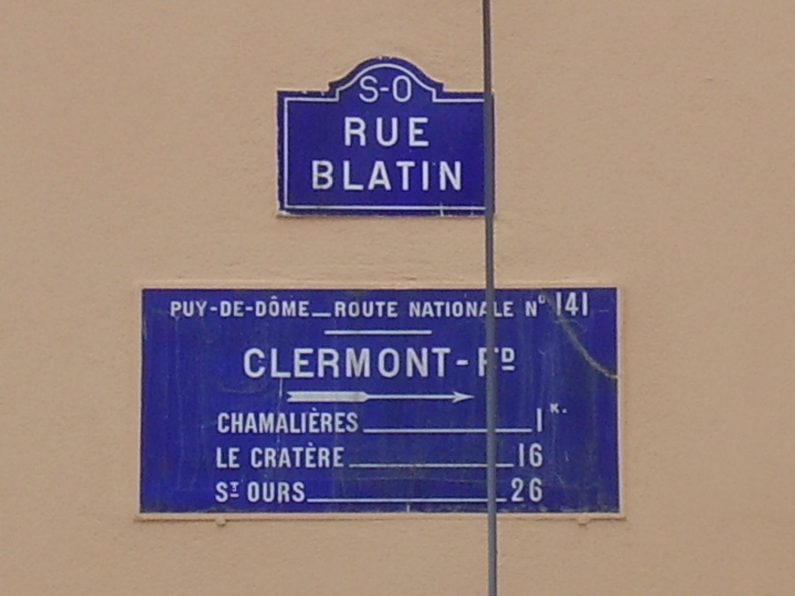 RN 141 (France) in Clermont-Ferrand (rue Blatin).